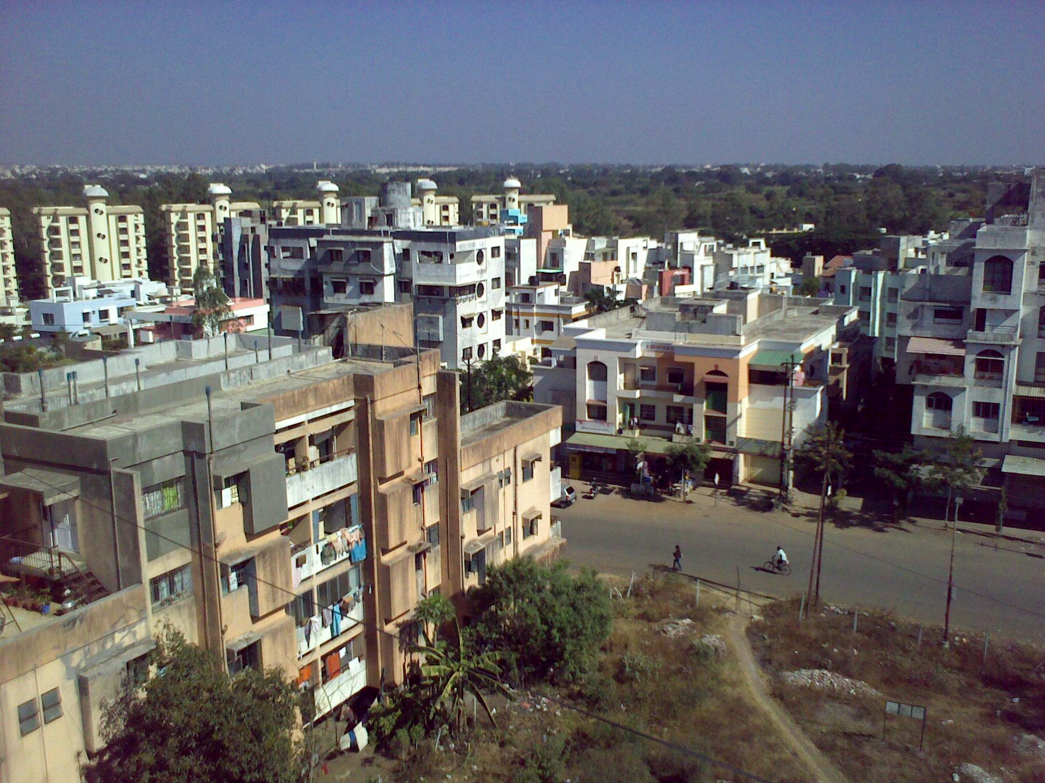 New residential areas of Nashik